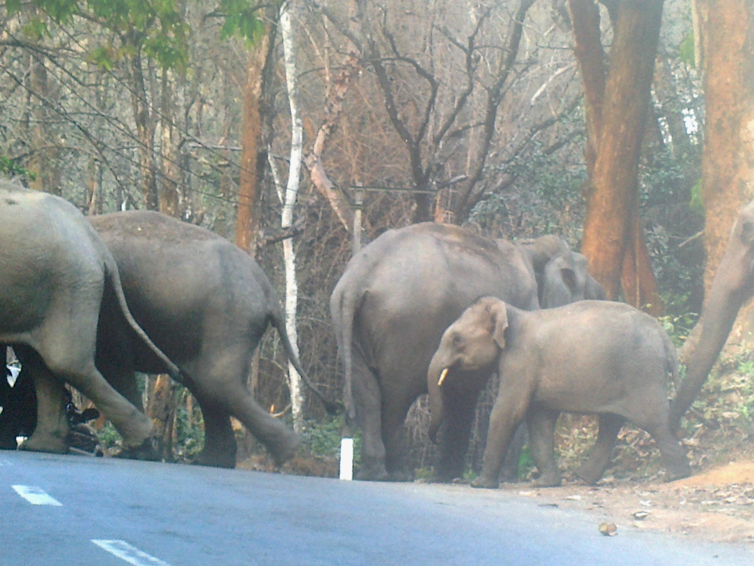 at Muthanga Wild life Sanctuary